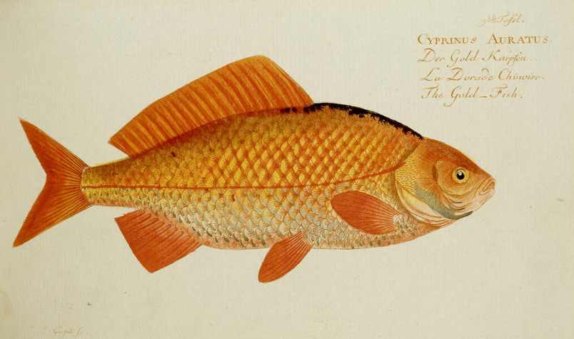 Etching of an Goldfish from M.E. Bloch (1782) Naturgeschichte der ausländischen Fische